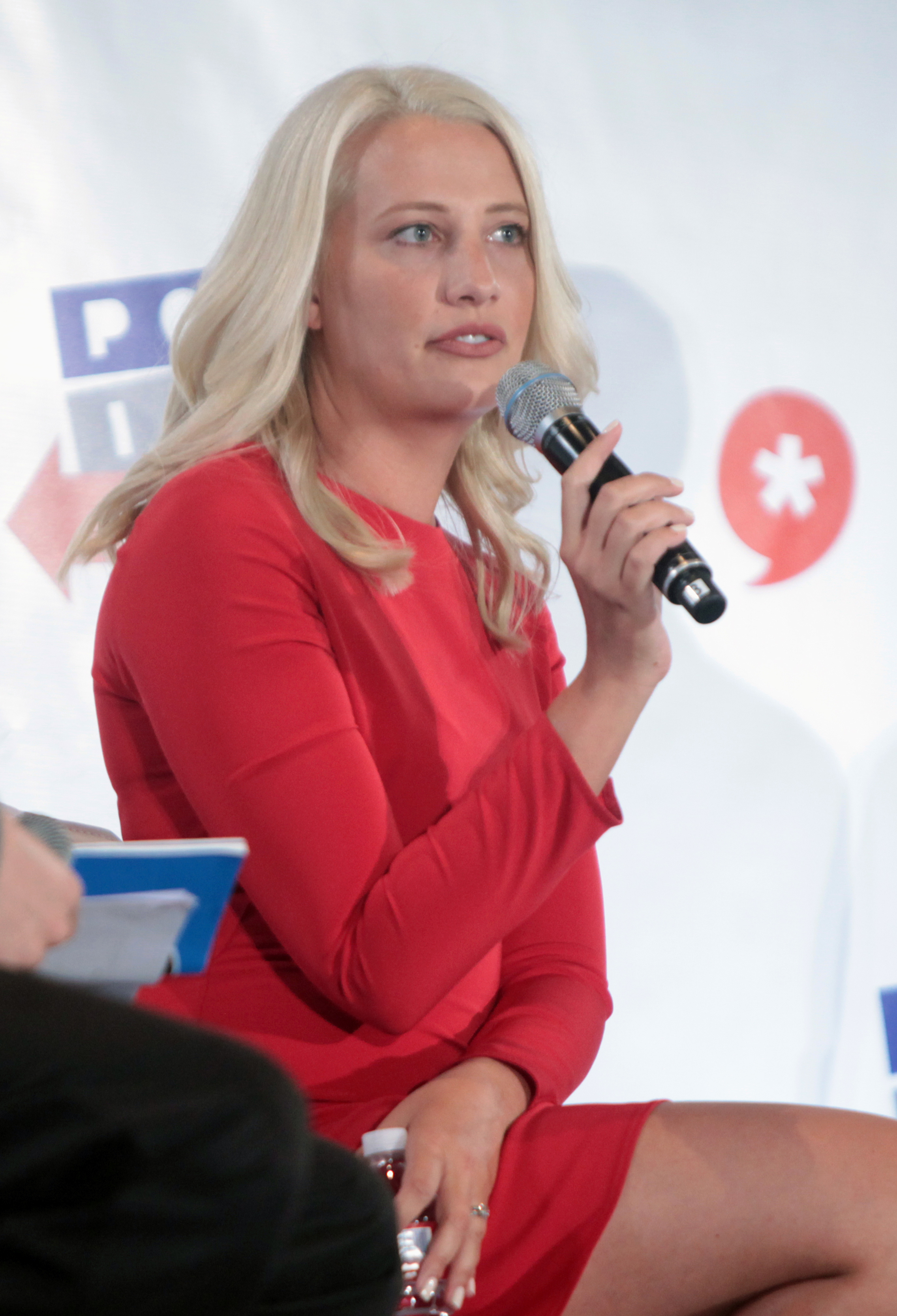 Elisha Krauss speaking at Politicon in Pasadena, California.